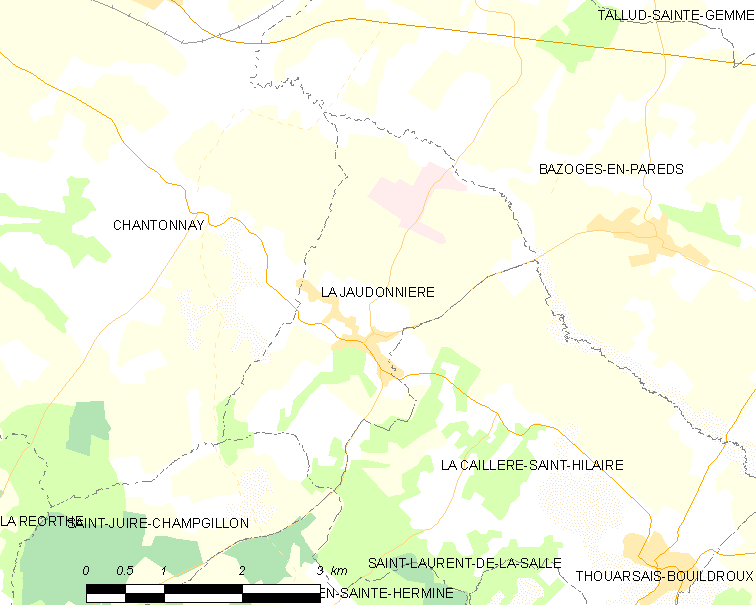 Map of French municipality La Jaudonnière